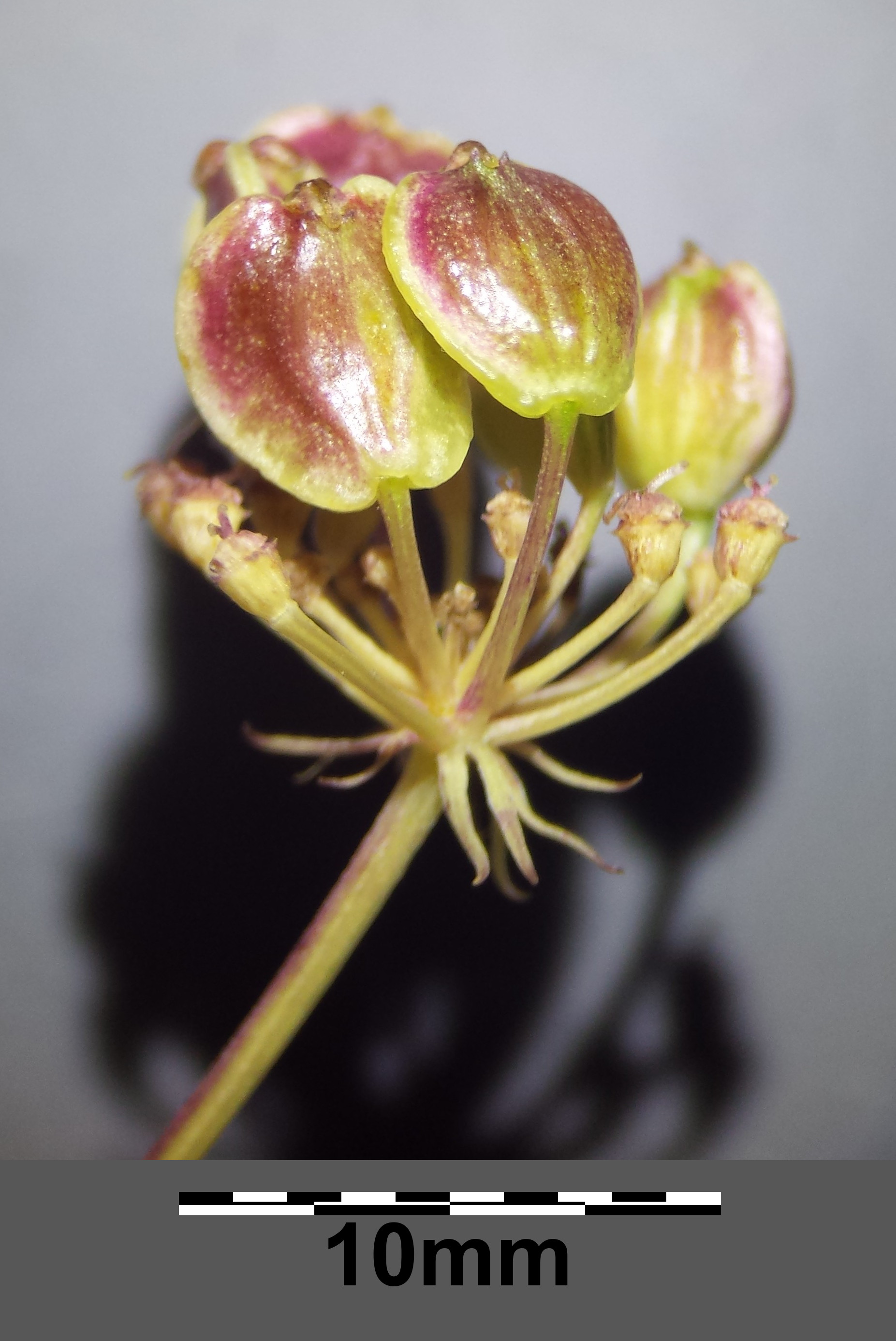 Umbellet Taxonym: Peucedanum oreoselinum ss Fischer et al. EfÖLS 2008 ISBN 978-3-85474-187-9 Location: Eichleiten to the North of Enzersfeld, district Korneuburg, Lower Austria - ca. 240 m a.s.l. Habitat: semi-dry grassland